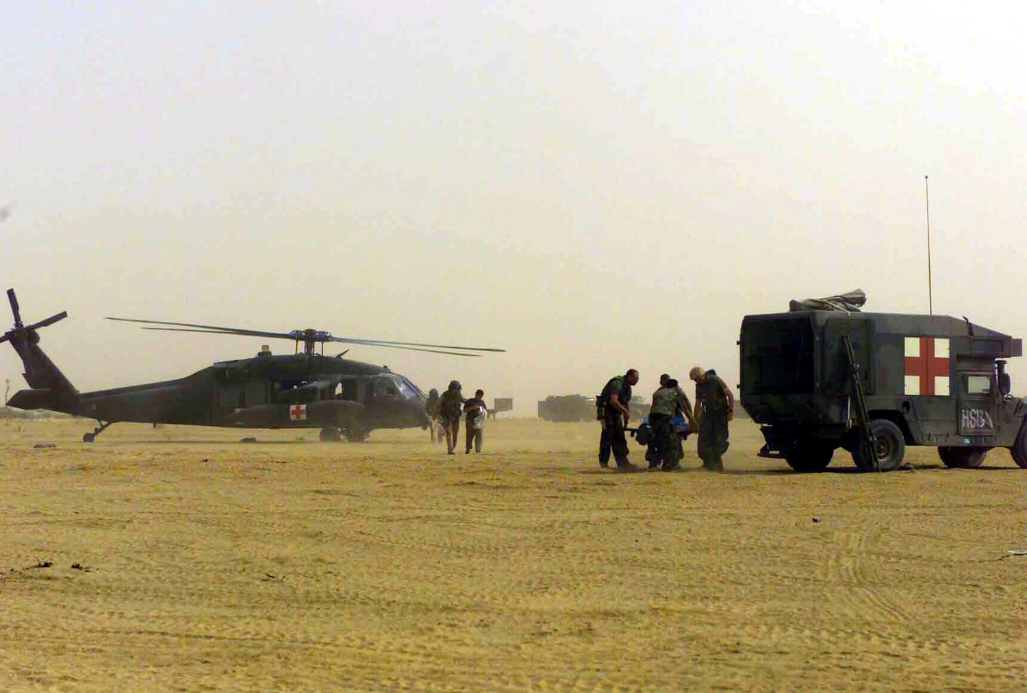 Central Command Area of Responsibility (Mar. 31, 2003) -- U.S. Navy Corpsmen transport wounded from an Army Medical Evacuation UH-60Q Black Hawk helicopter to Charlie Surgical Support Co, Health Services Battalion (HSB) 1st Force Service Support Group (1st FSSG) forward headquarters Camp Viper. Operation Iraqi Freedom is the multi-national coalition effort to liberate the Iraqi people, eliminate Iraq's weapons of mass destruction. U.S. Marine Corps photo by MSgt Edward D. Kniery. (RELEASED)